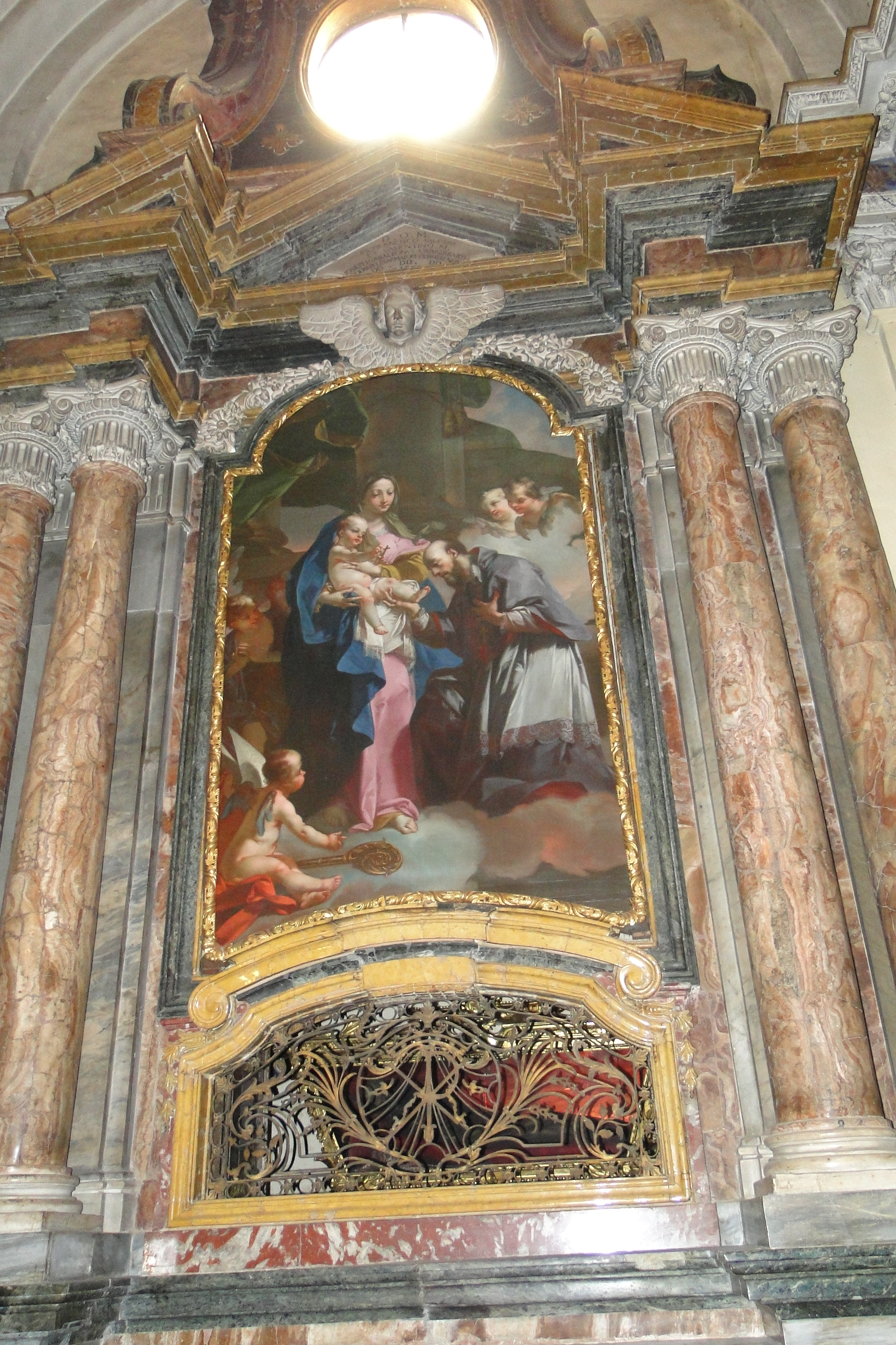 Francis de Sales who prey the Virgin - Picture of Claudio Francesco Beaumont in San Filippo Church (Chieri - Italy)